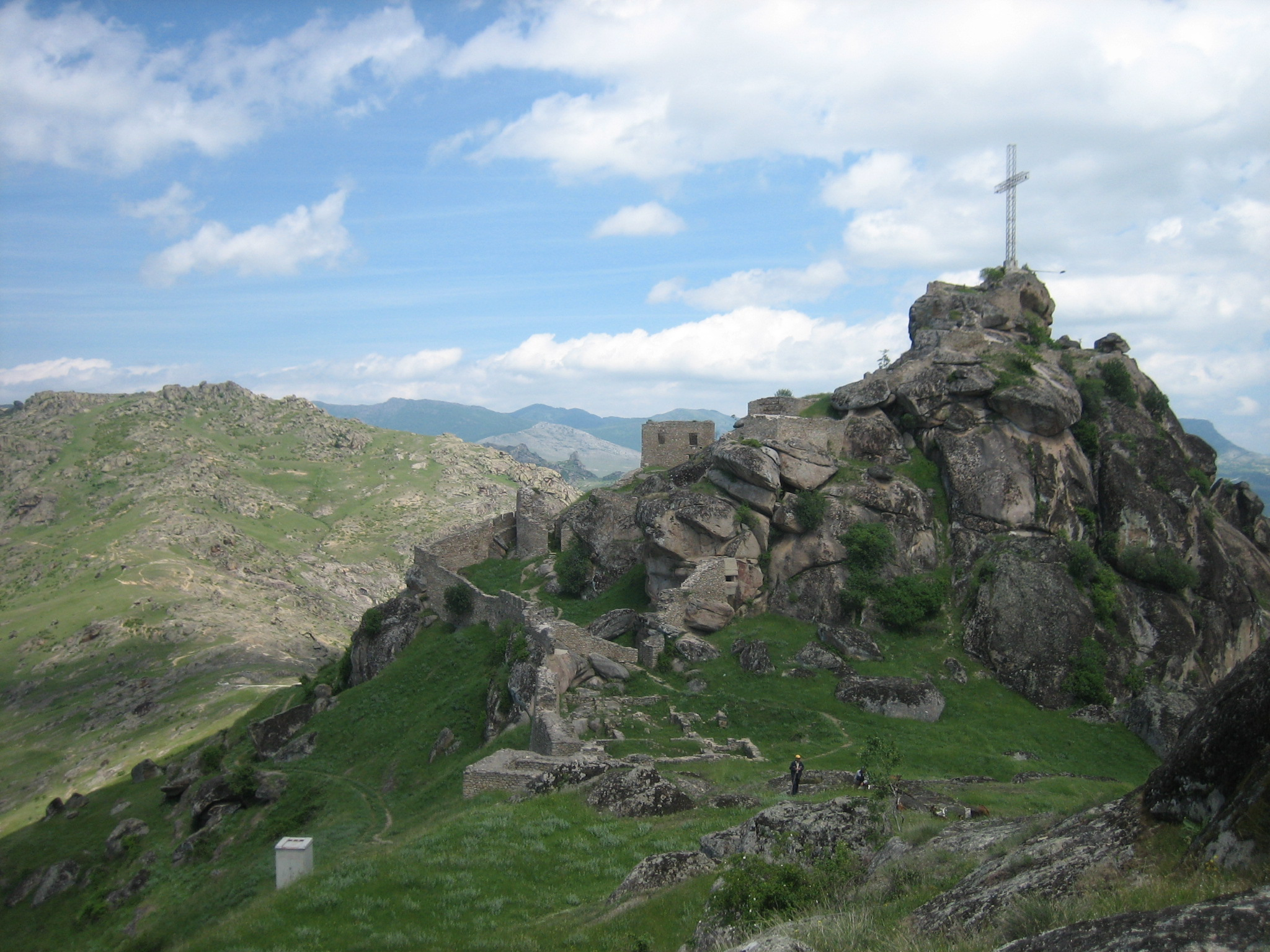 Fortress Towers of Marko in Prilep